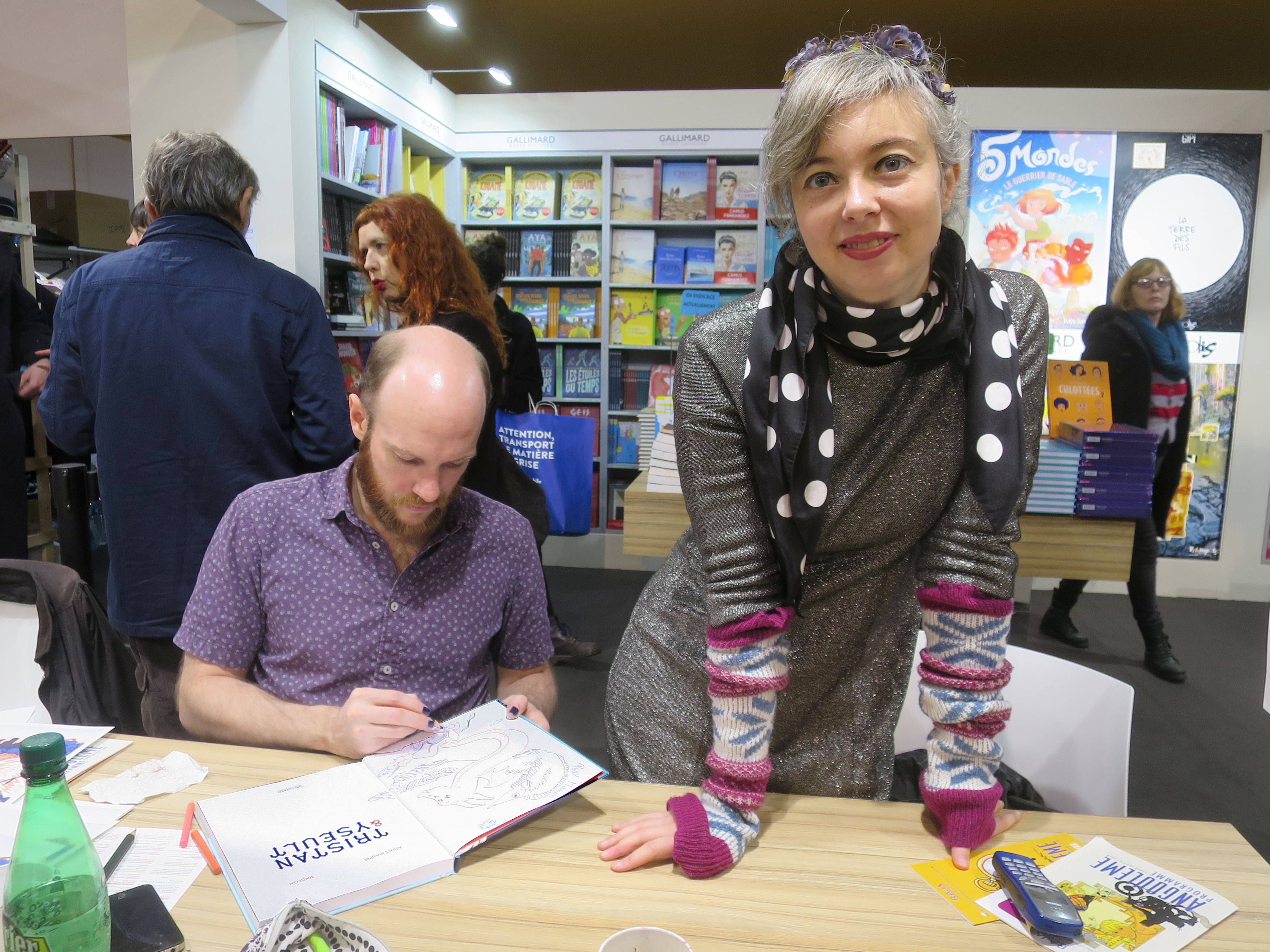 Comic book authors Singeon and Agnès Maupré signing their book Tristan et Yseult, at their publisher's during Angoulême International Festival, 2018